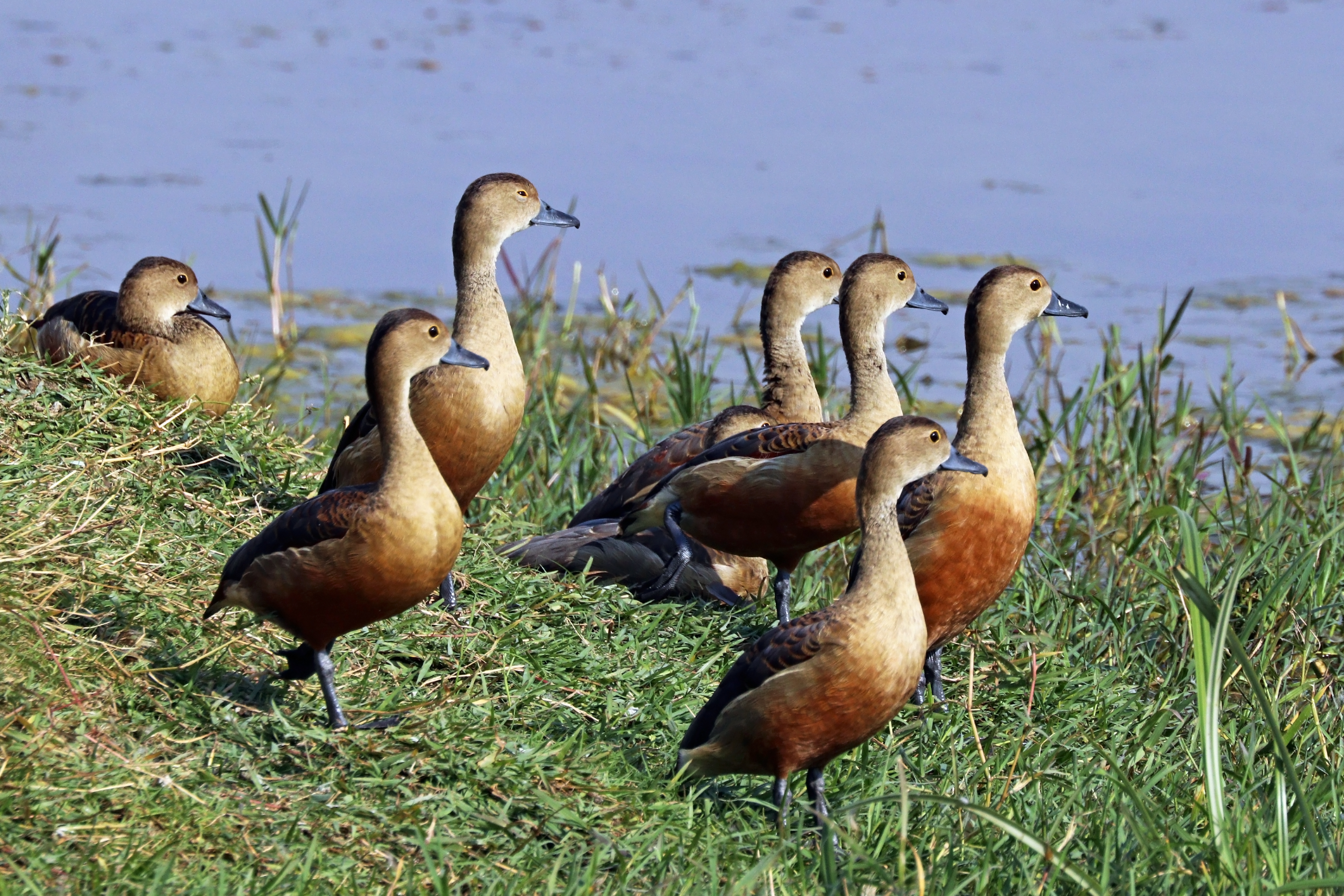 Lesser whistling ducks (Dendrocygna javanica), Keoladeo NP, Bharatpur, India